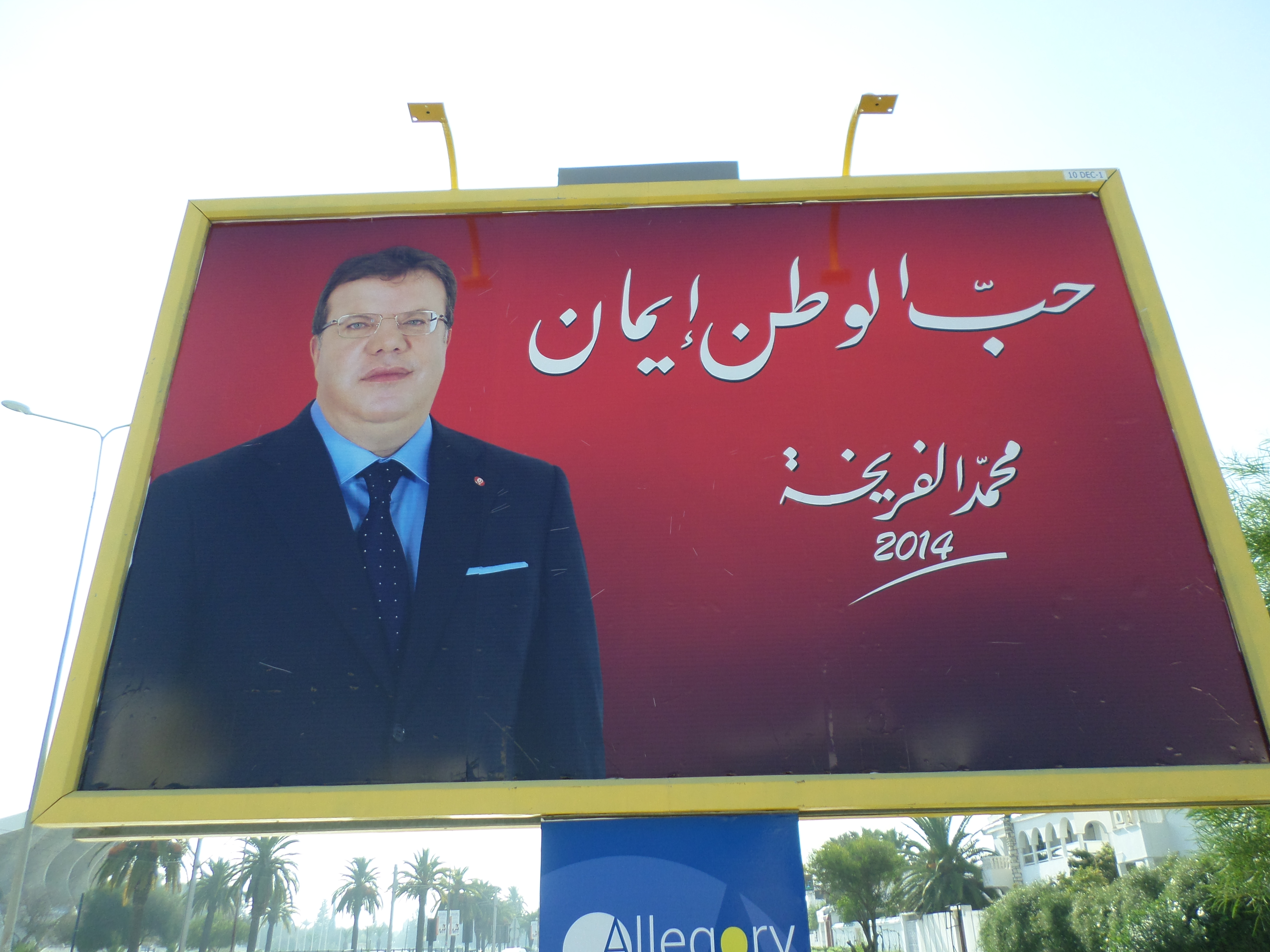 Electoral billboard of Tunisian presidential candidate Mohamed Frikha